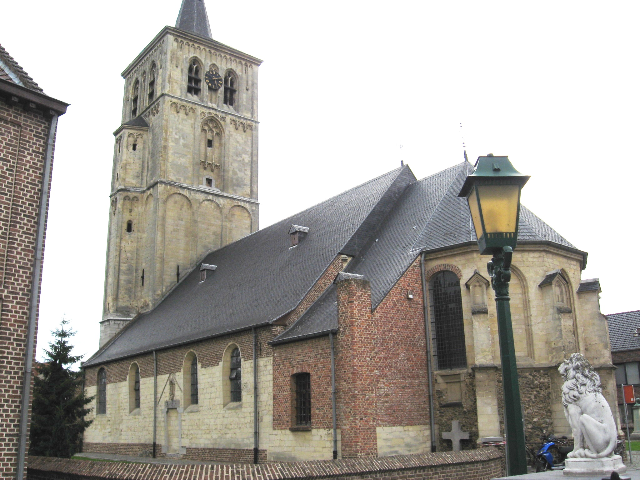 Church of Saint Peter in Tongerlo, Bree, Limburg, Belgium